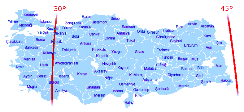 Turkey map with 30th and 45th meridians east.